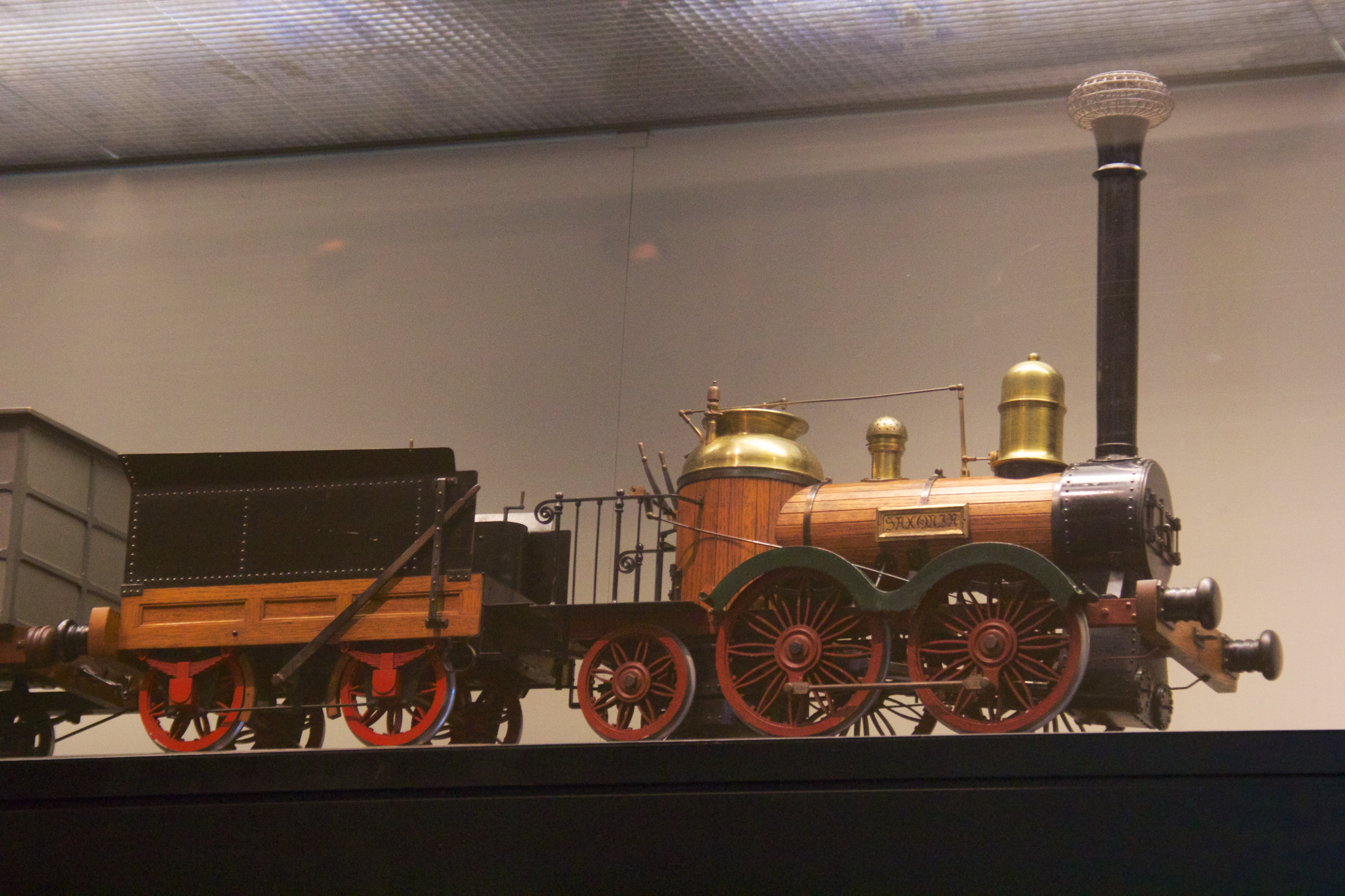 Model of the locomotive Saxonia. Hermann Ranft, 1906-1976. 1953. And models of carriages. At the Deutsches Historisches Museum, Berlin.